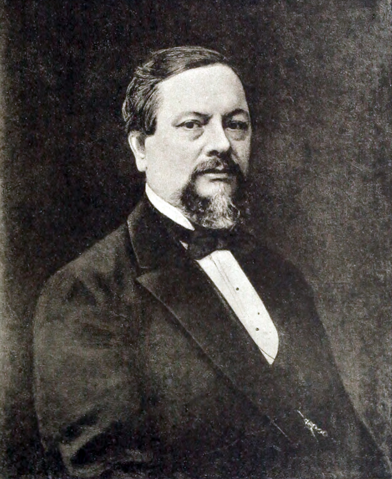 Olof Hallin (1821-1888)